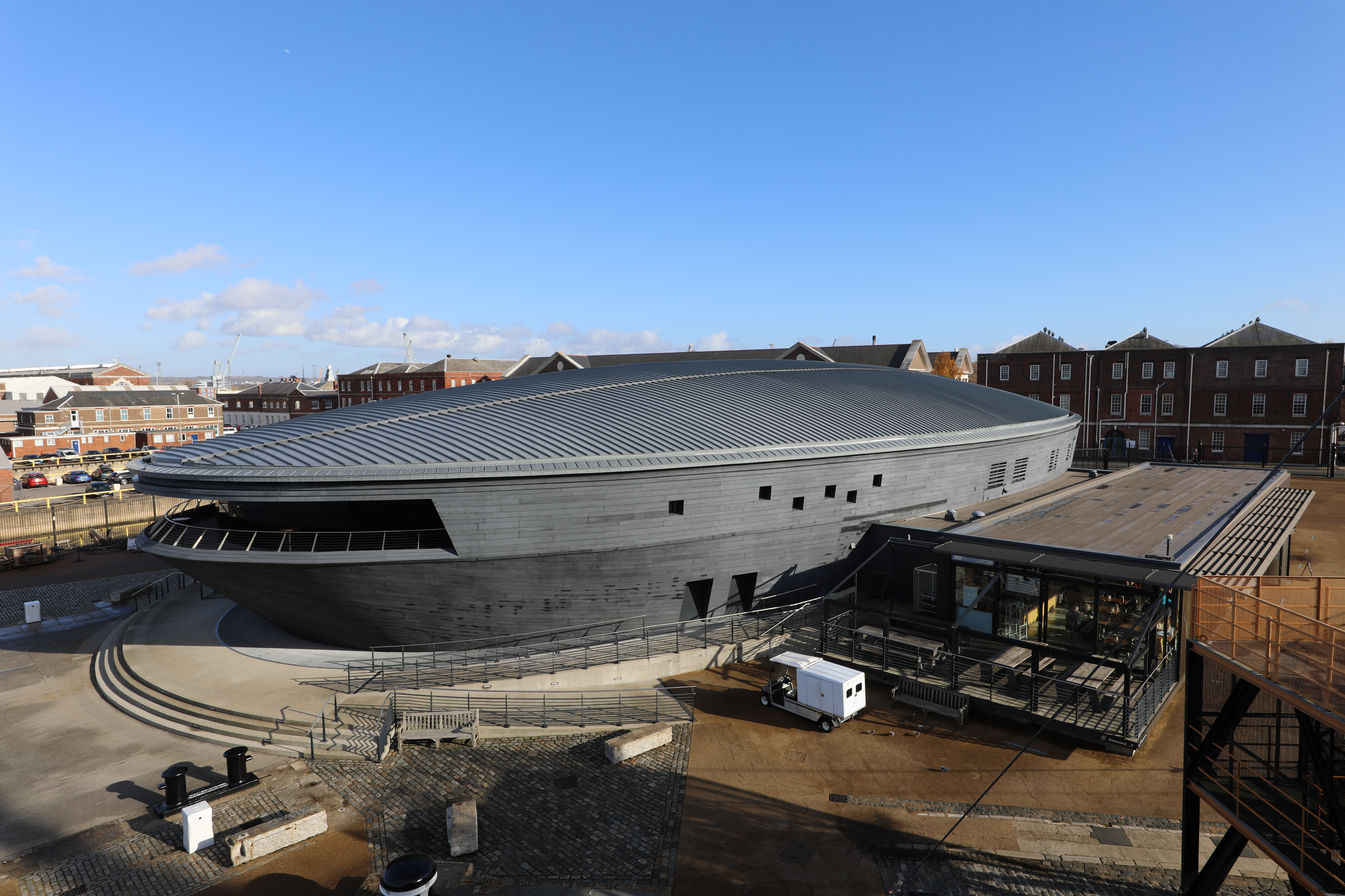 Photo of the exterior of the Mary Rose museum